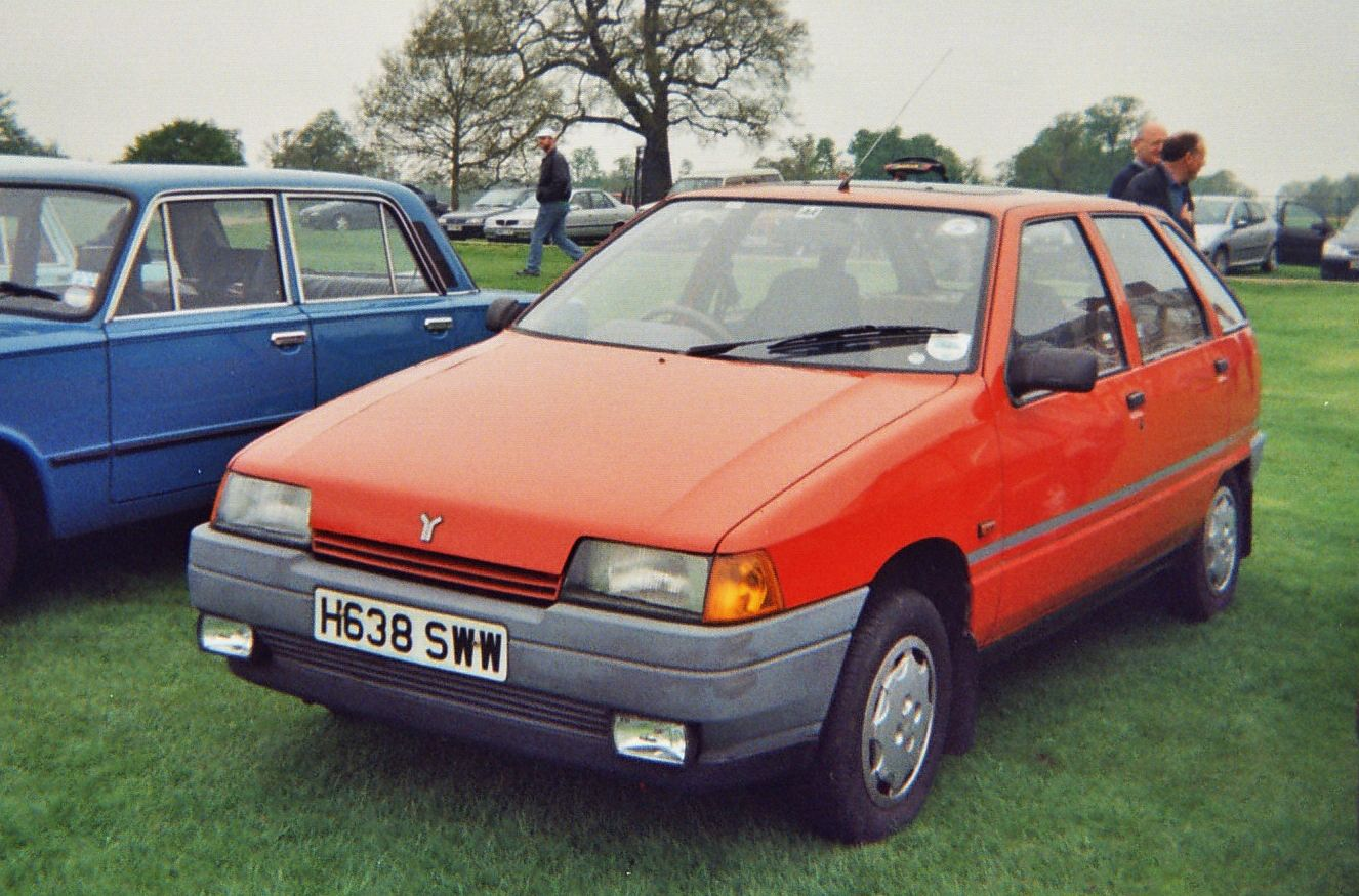 Yugo Sana aka Yugo Florida at the Wartburg/Trabant/IFA Club UK Rally 2006 in Stanford Hall